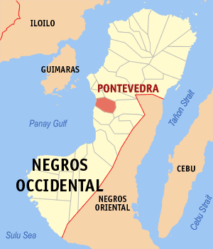 Map of Negros Occidental showing the location of Pontevedra